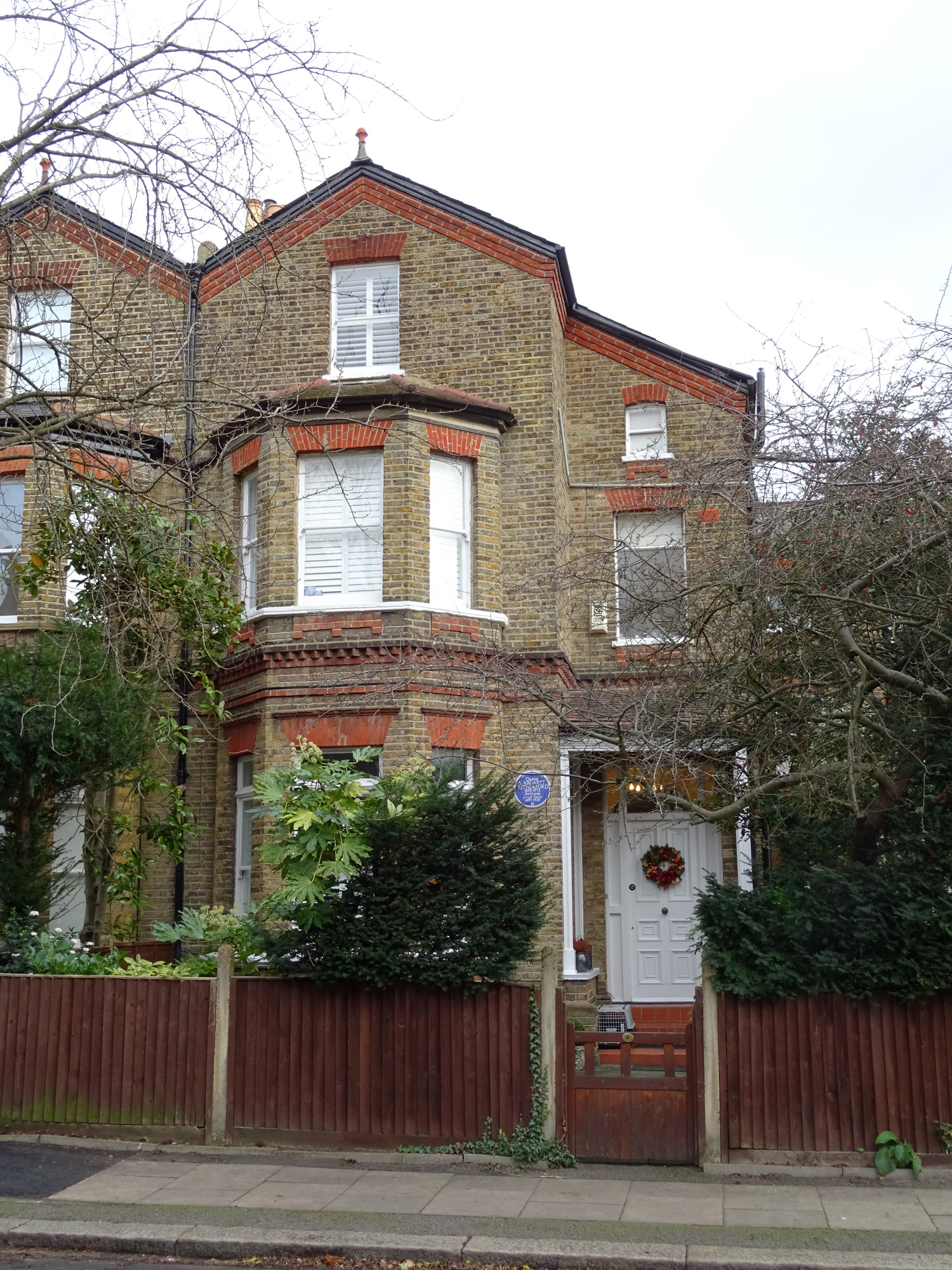 Dame MARGARET RUTHERFORD 1892-1972 Actress lived here 1895-1920 - 4 Berkeley Place Wimbledon London SW19 4NN